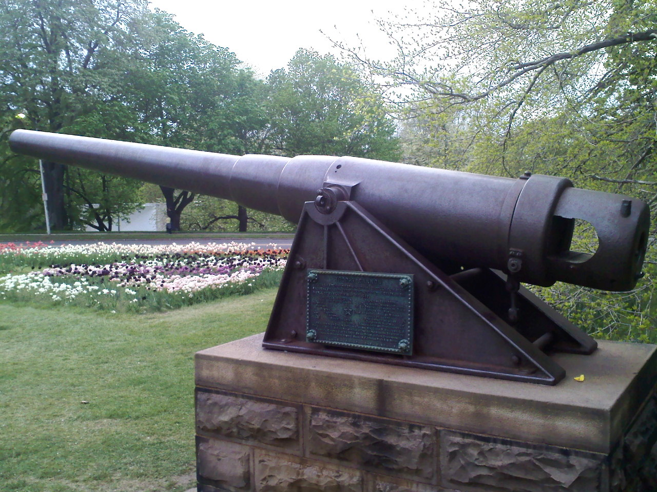 Gun from Spanish cruiser Castilla, sunk at the Battle of Manilla Bay in 1898. Took this near Highland Park in Rochester, NY during the Lilac Festival. See also File:CastillaPlaque.jpg for closeup of plaque inscription.